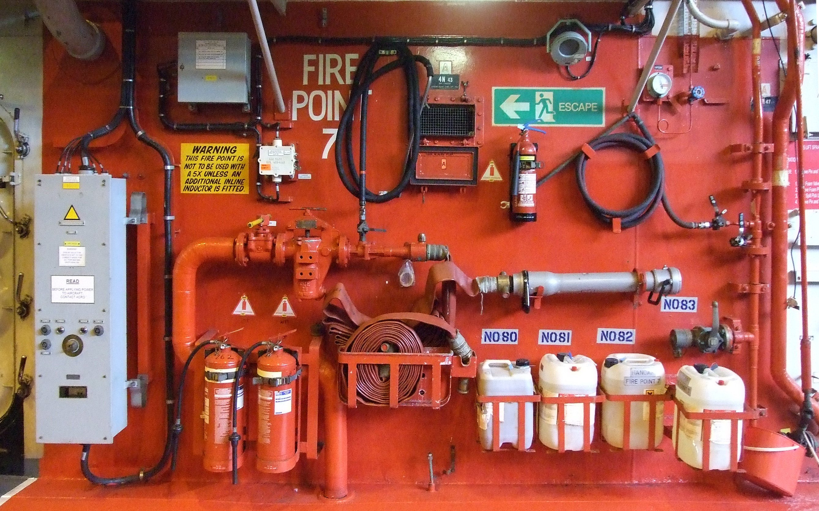 HMS Ark Royal, Hangar Deck, Fire Point 7